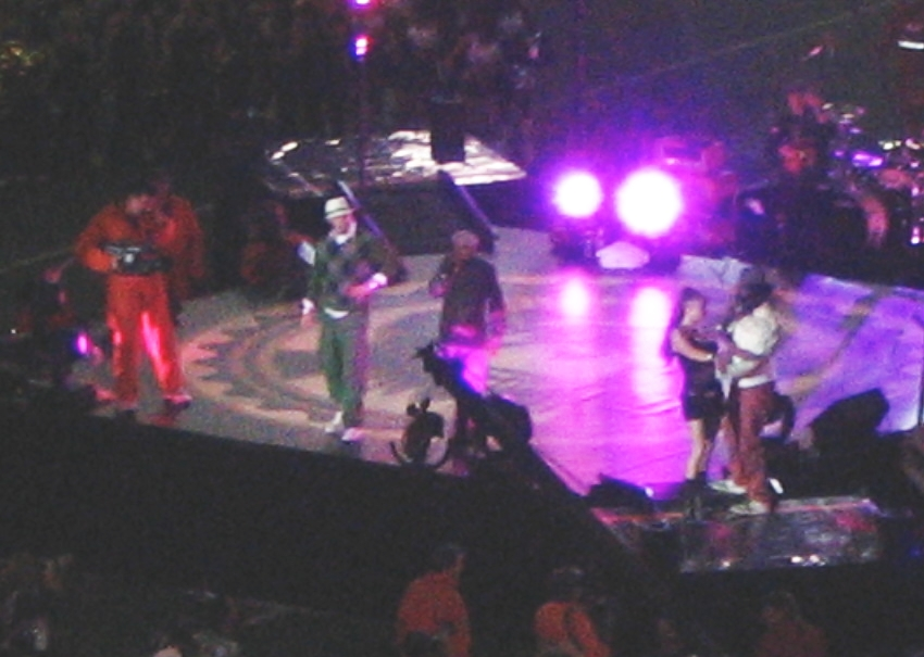 The Black Eyed Peas perform during halftime at the 93rd Grey Cup, November 27, 2005, BC Place Stadium in Vancouver, British Columbia, Canada.Grey Cup